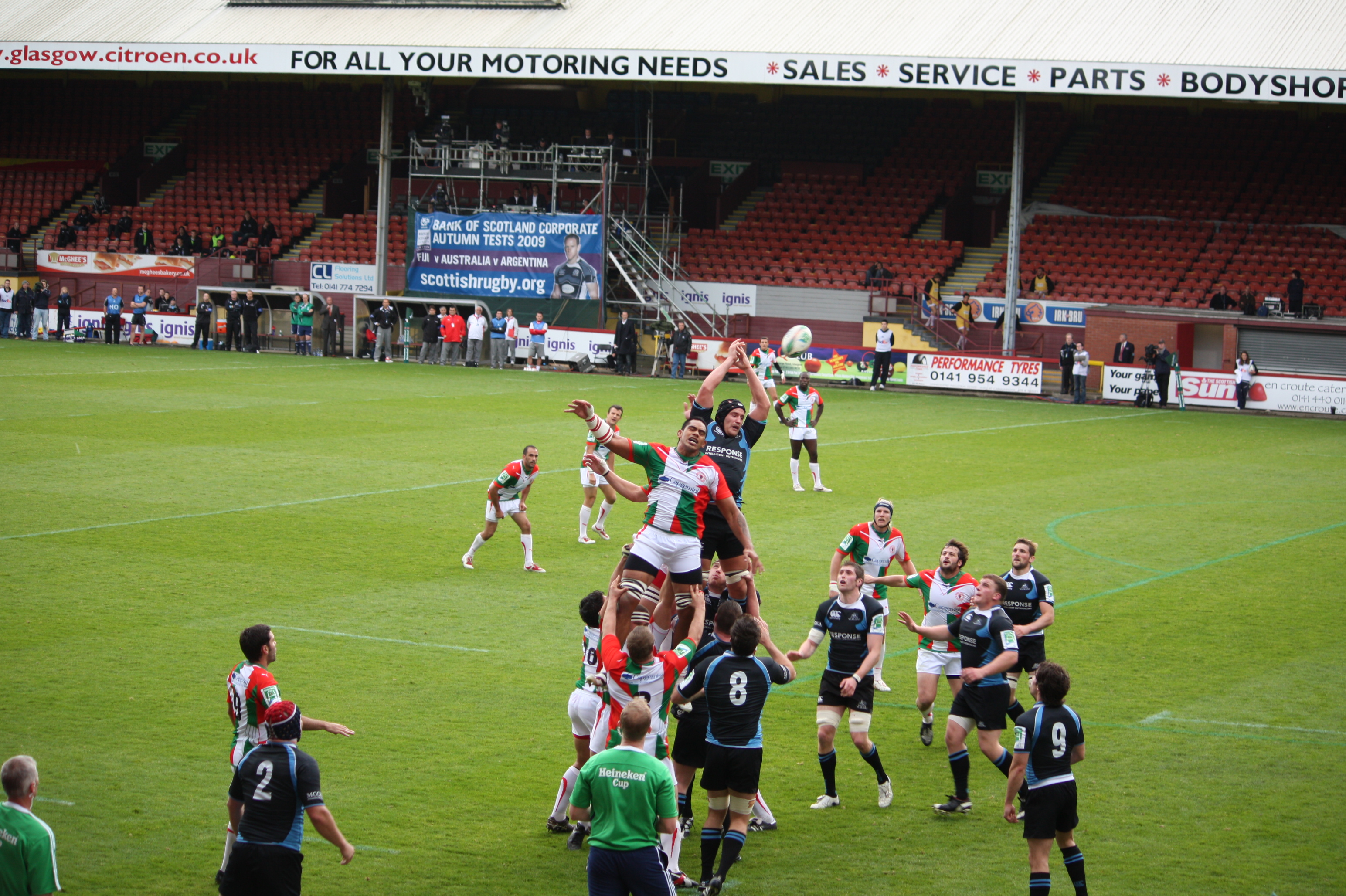 This lineout went totally wrong, resulting in a try for Biarritz.